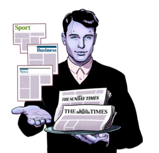 JAMES, Your Digital Butler, DNI project co-hosted by The Times and The Sunday Times and Twipe